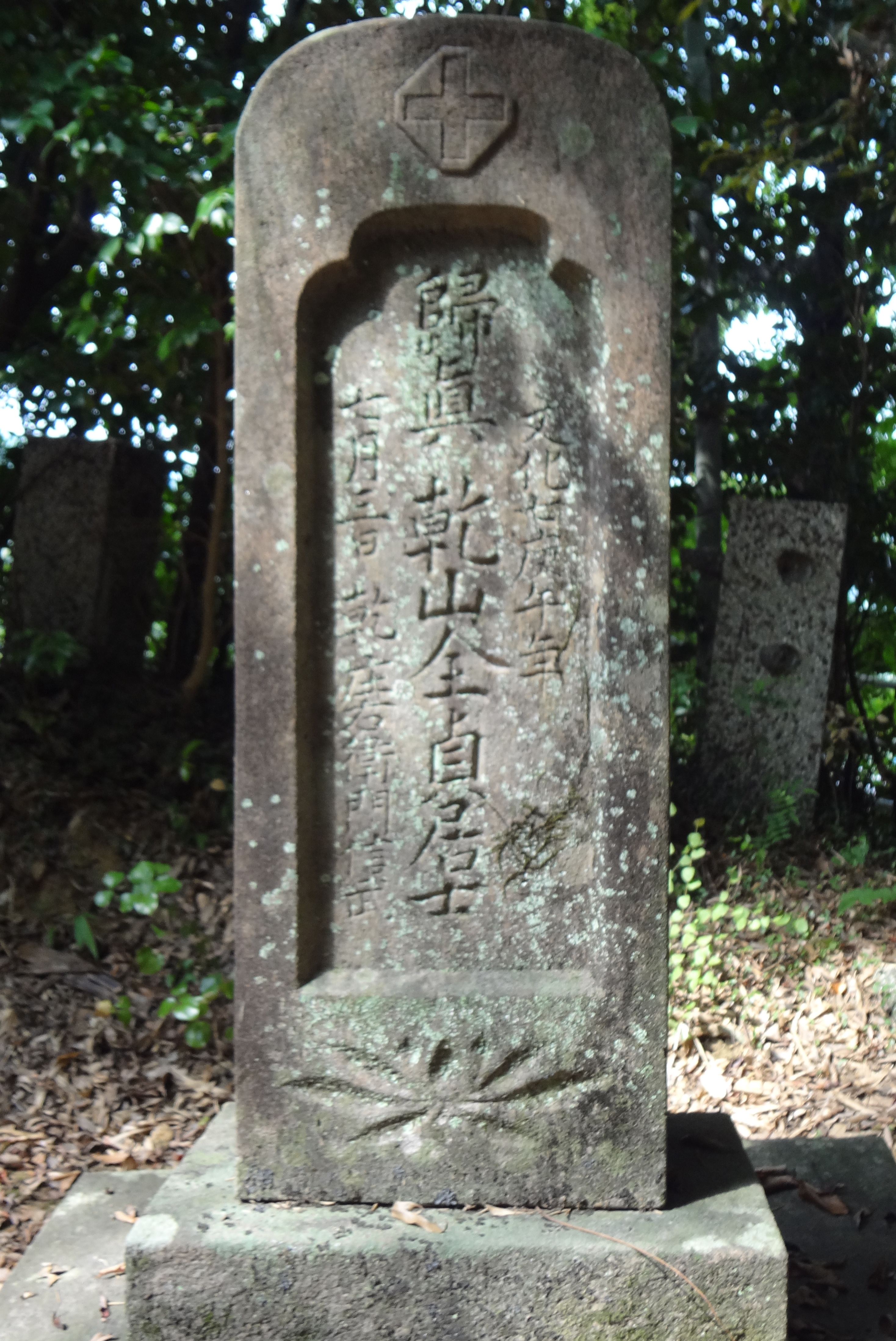 The tomb of INUI(ITAGAKI) NOBUTAKE (1778-1810). Grandfather of ITAGAKI TAISUKE.